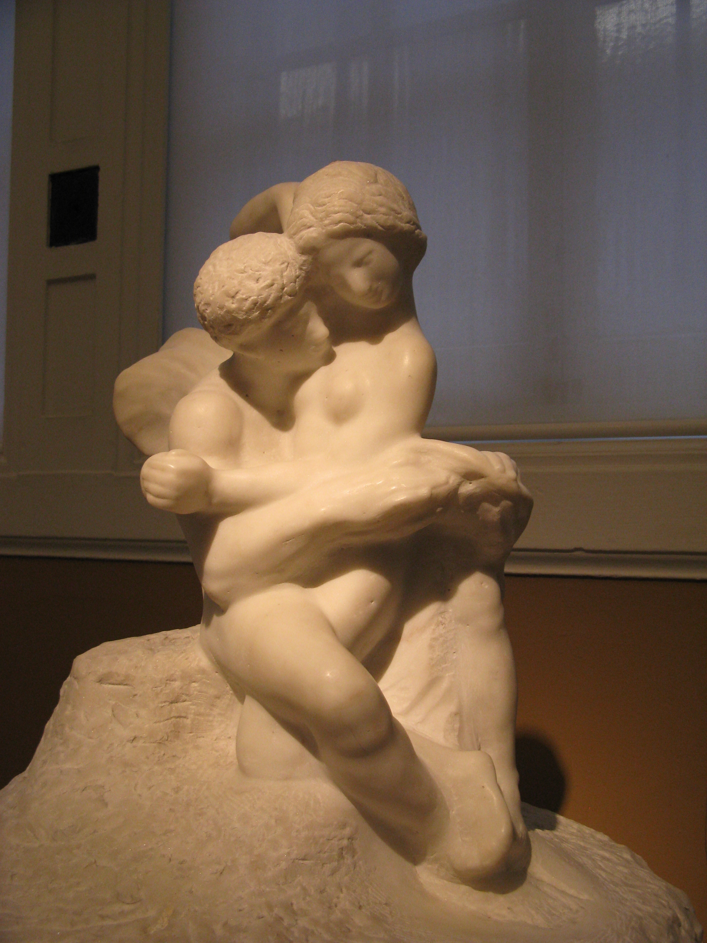 Cupid and Psyche by Auguste Rodin at Victoria and Albert Museum